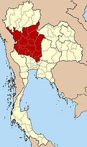 Map of Thailand highlighting the extent of the Roman Catholic diocese of Nakhon Sawan.